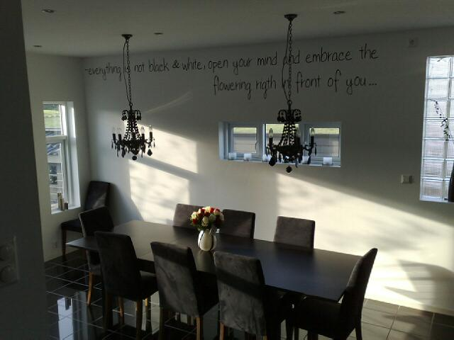 LenaHuset at Drangsholt Norsk (bokmål): LenaHuset på Drangsholt